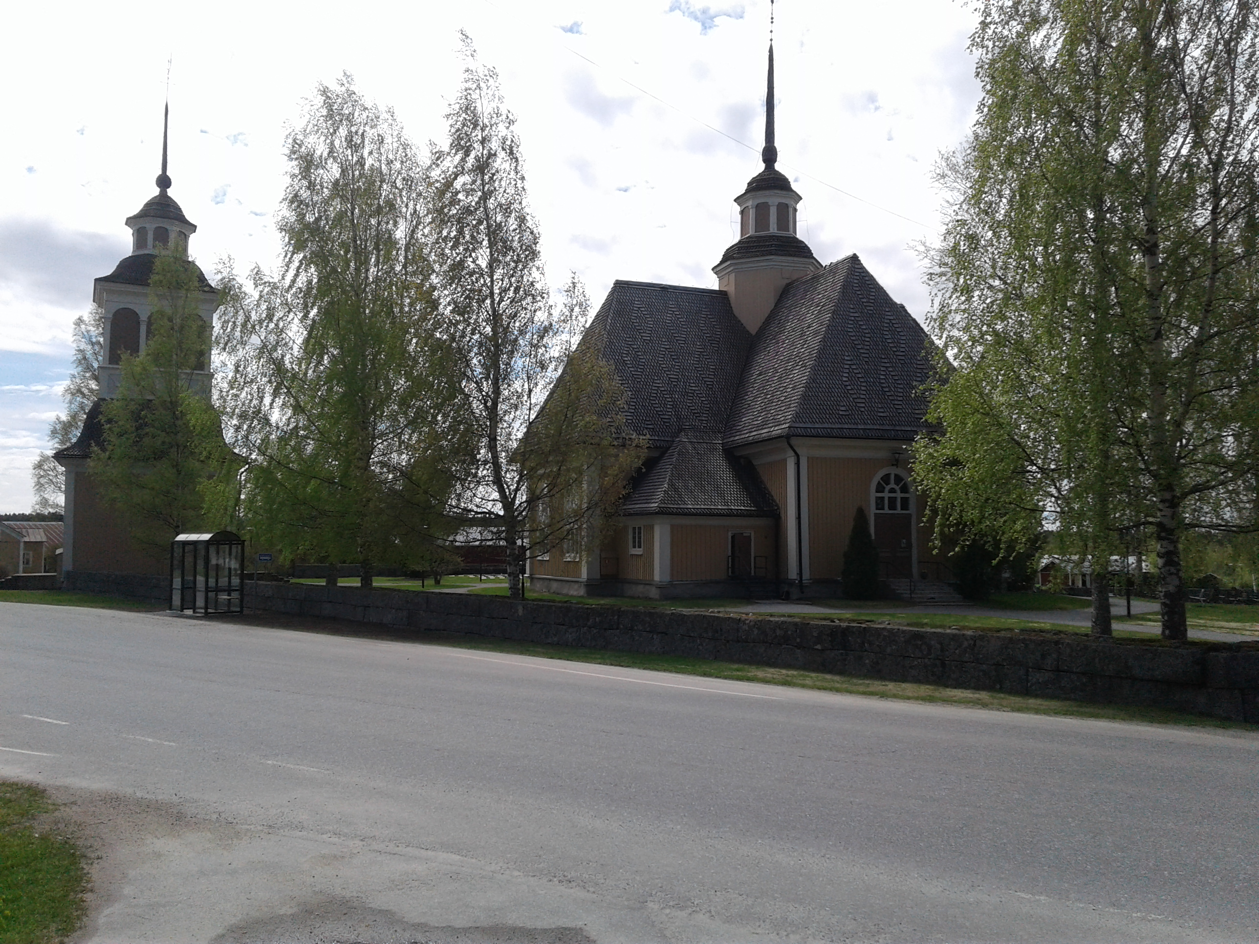 Church of Purmo, Finland